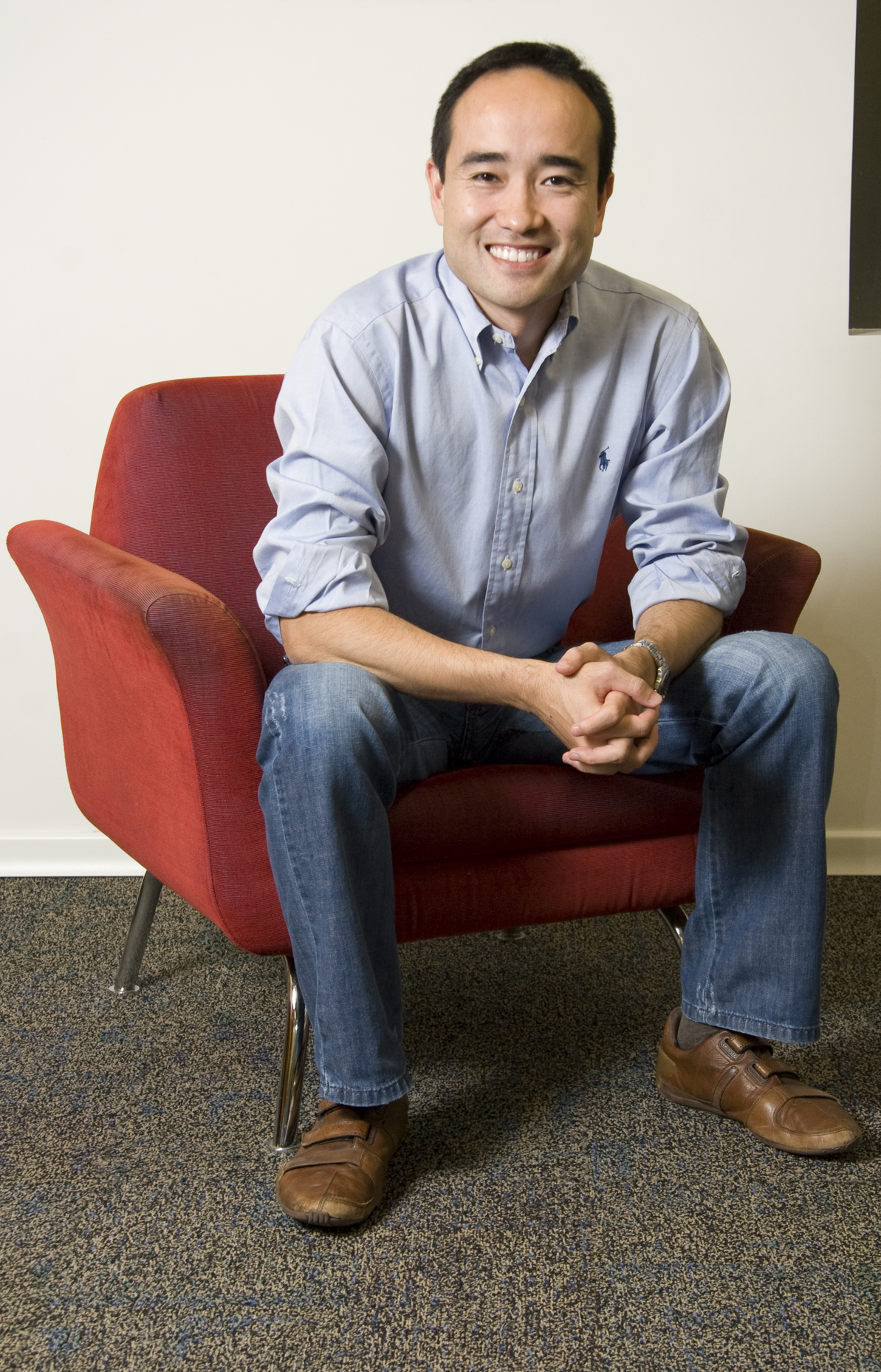 Deli Matsuo, CEO da Appus